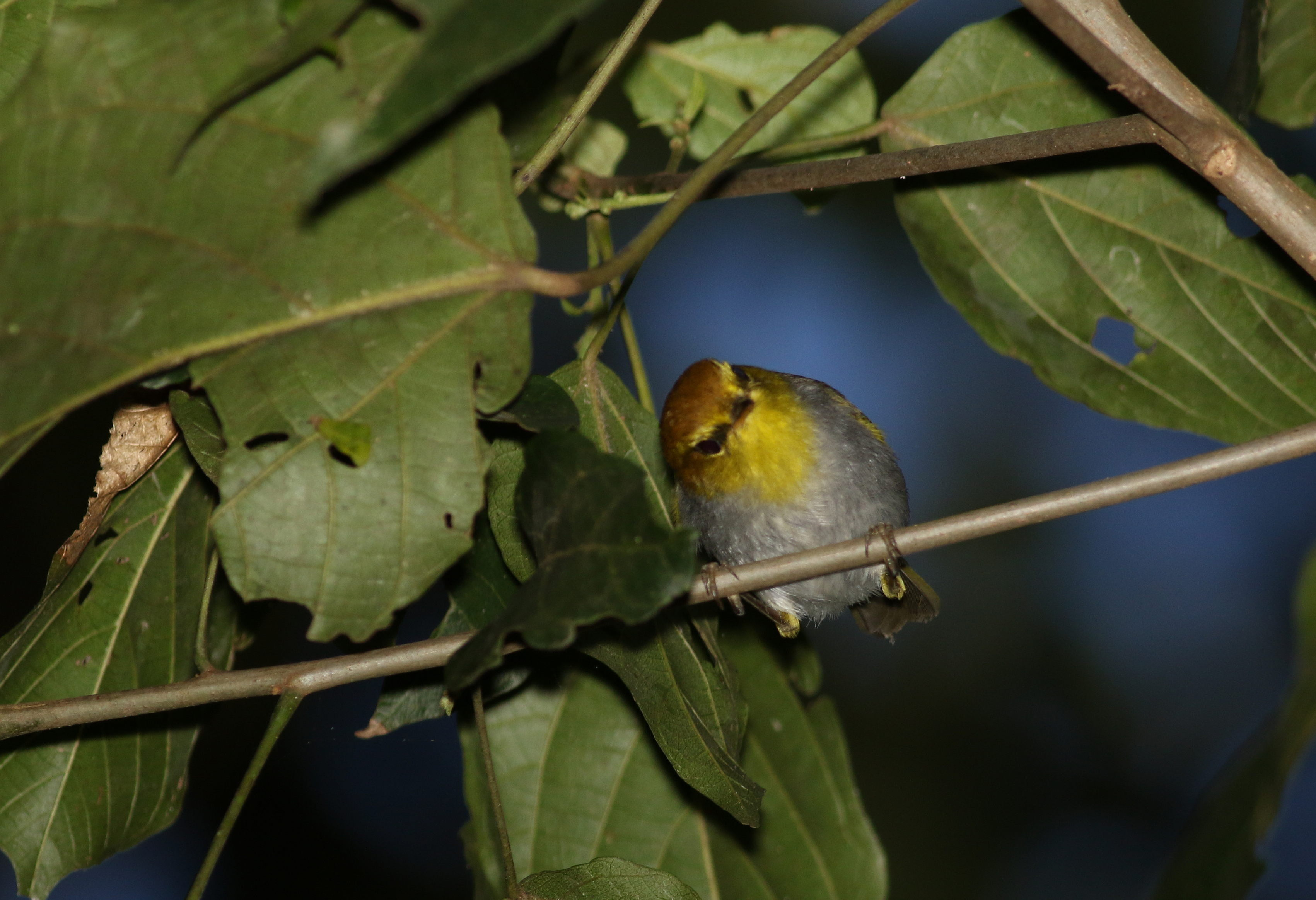 Yellow-throated woodland warbler, Phylloscopus ruficapilla, at Seldomseen, Vumba, Zimbabwe